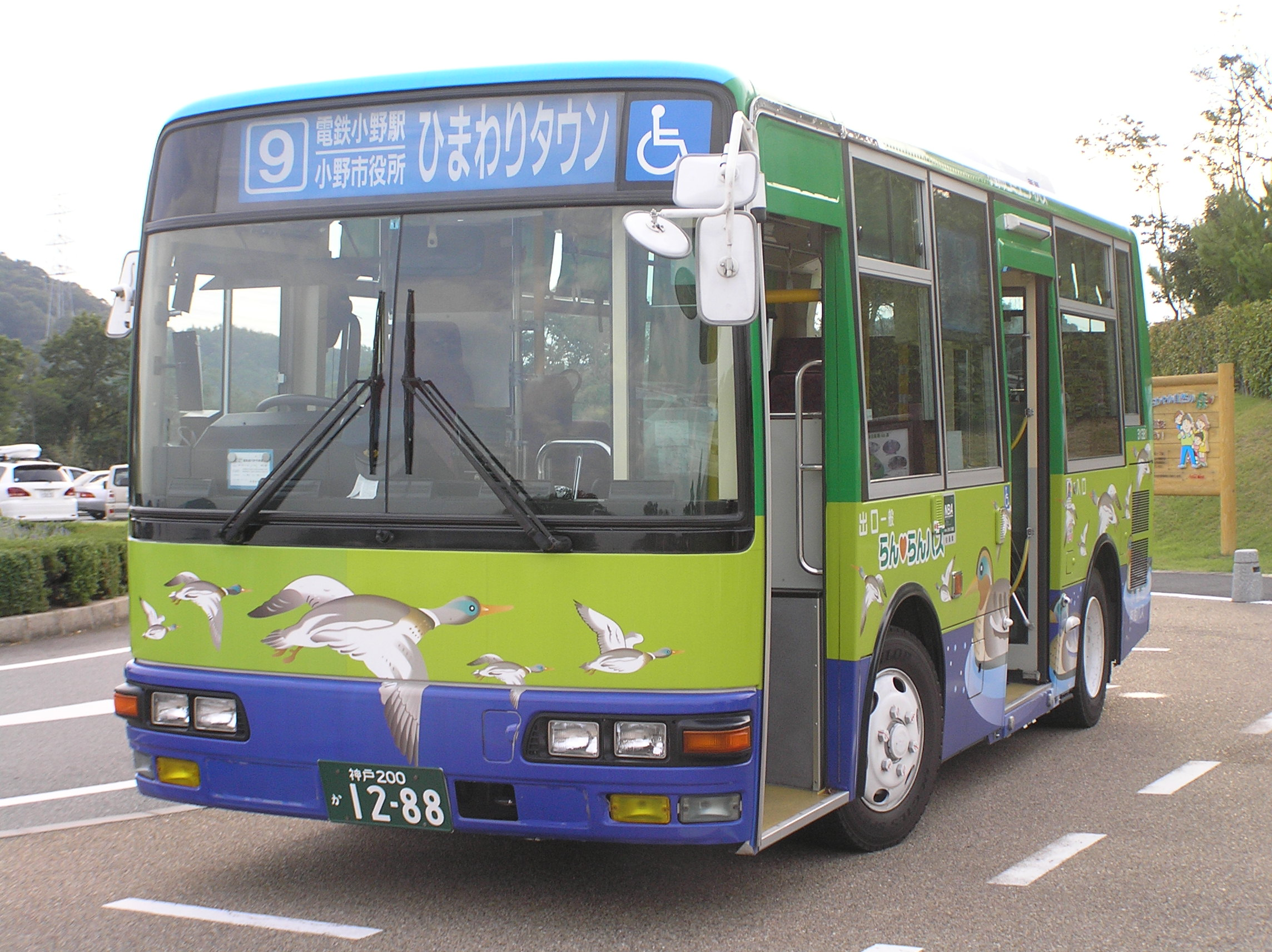 Ran-Ran bus,Ono city